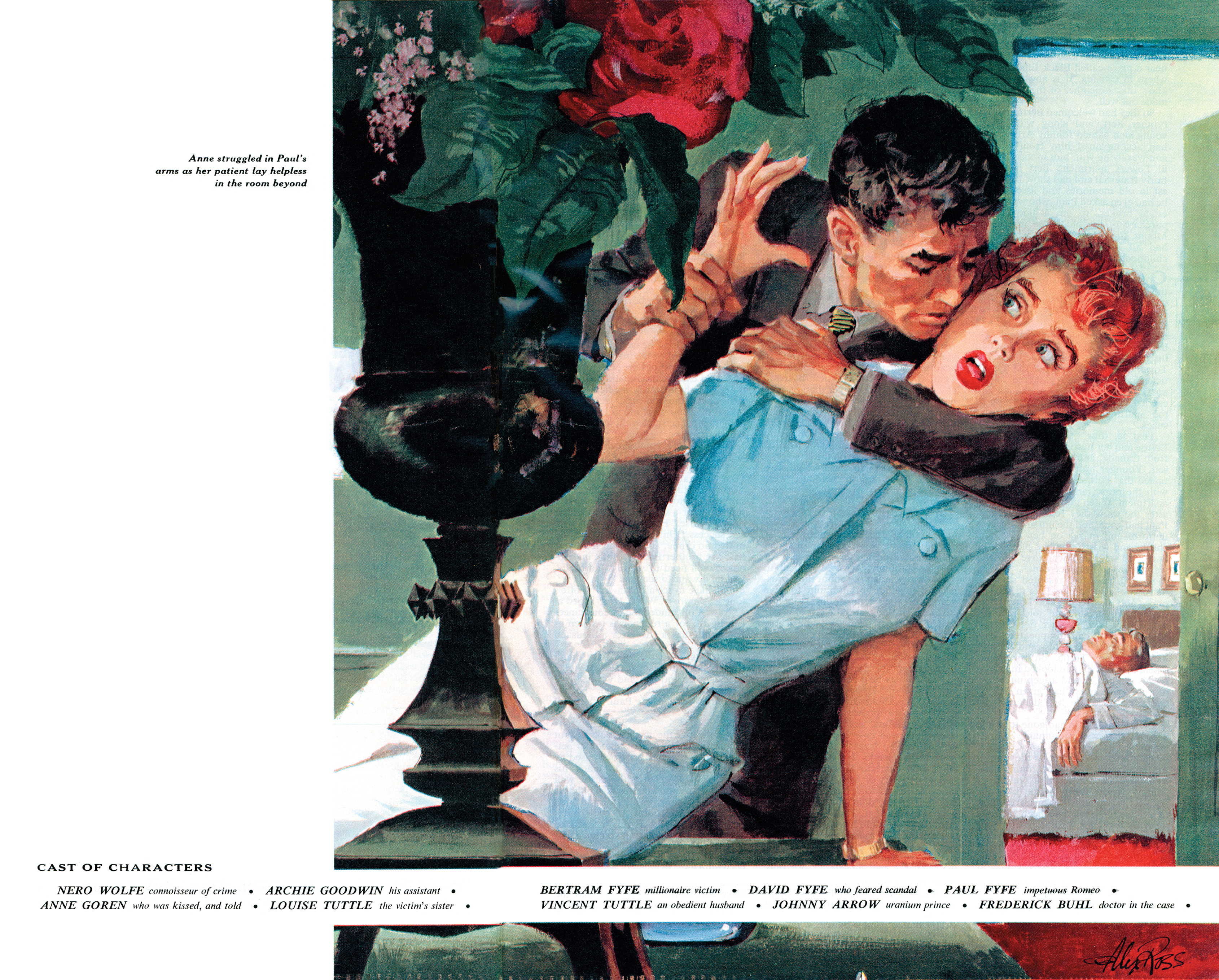 Illustration from The American Magazine printing of "A Window for Death", a Nero Wolfe short story by Rex Stout that first appeared under the title "Nero Wolfe and the Vanishing Clue"